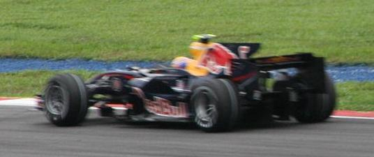 Mark Webber driving for Red Bull Racing at the 2008 Malaysian Grand Prix.